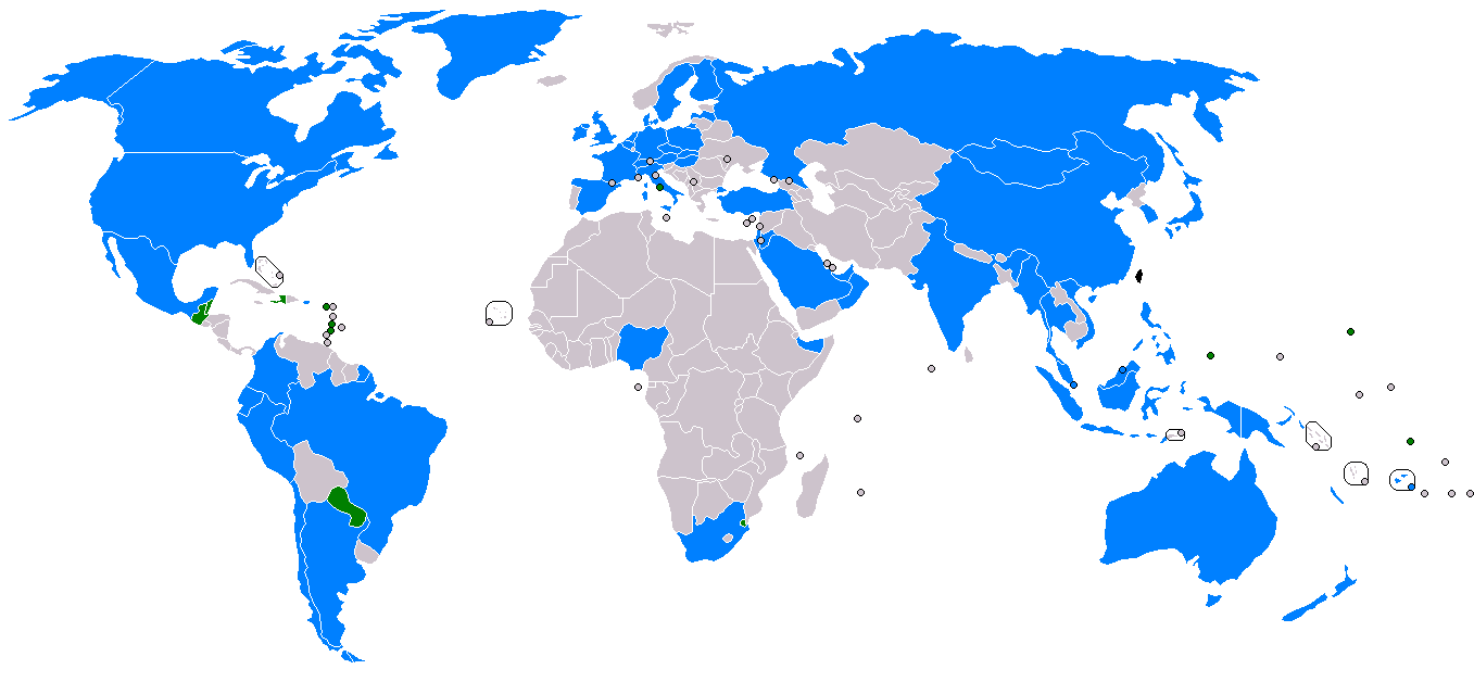 Foreign relations of the Republic of China (Taiwan). Green - official diplomatic relations; blue - non-official relations.